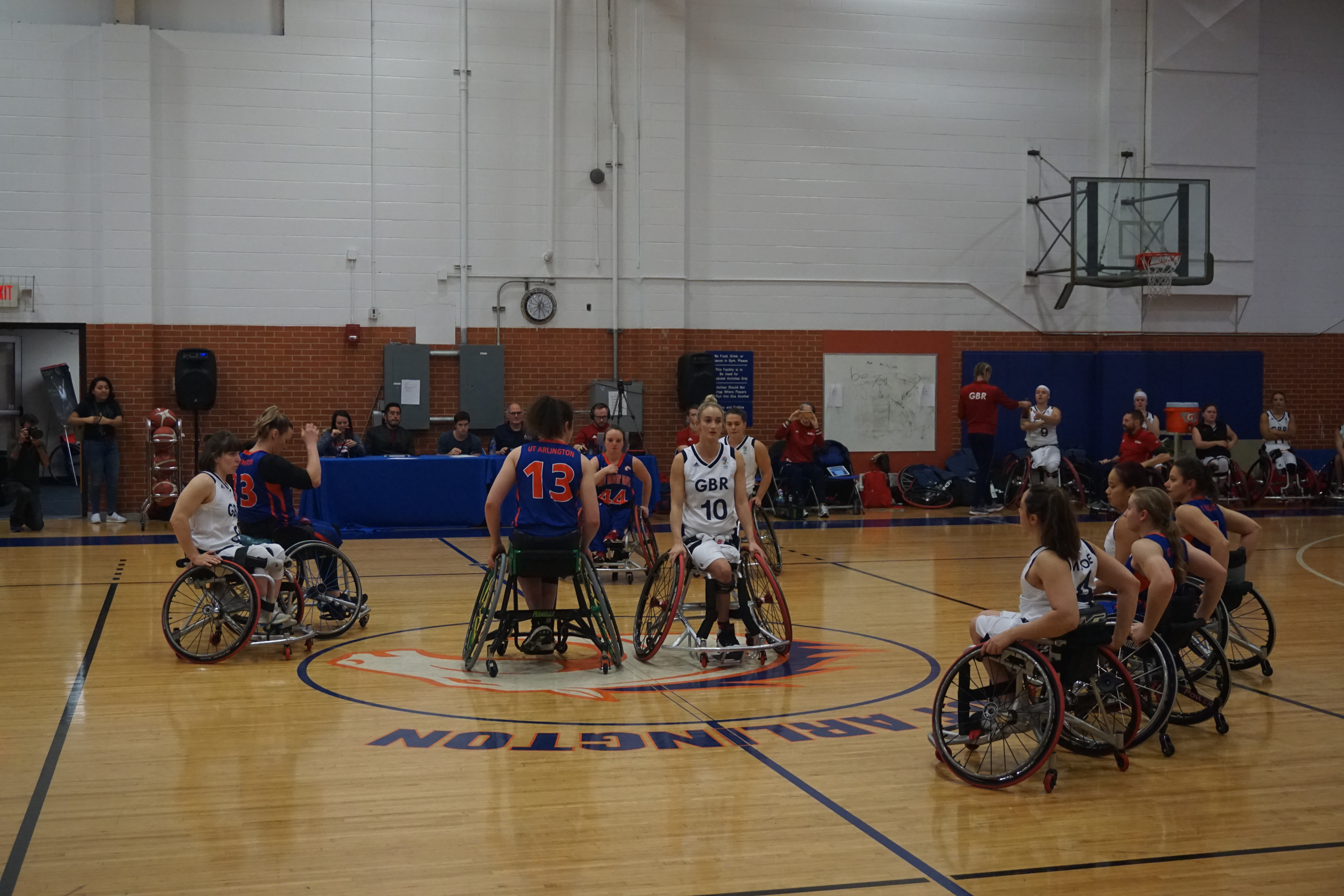 In-game action during the Great Britain vs. UT Arlington Mavericks women's wheelchair basketball game at the Physical Education Building on the campus of the University of Texas at Arlington in Arlington, Texas (United States). Great Britain won 54–38.